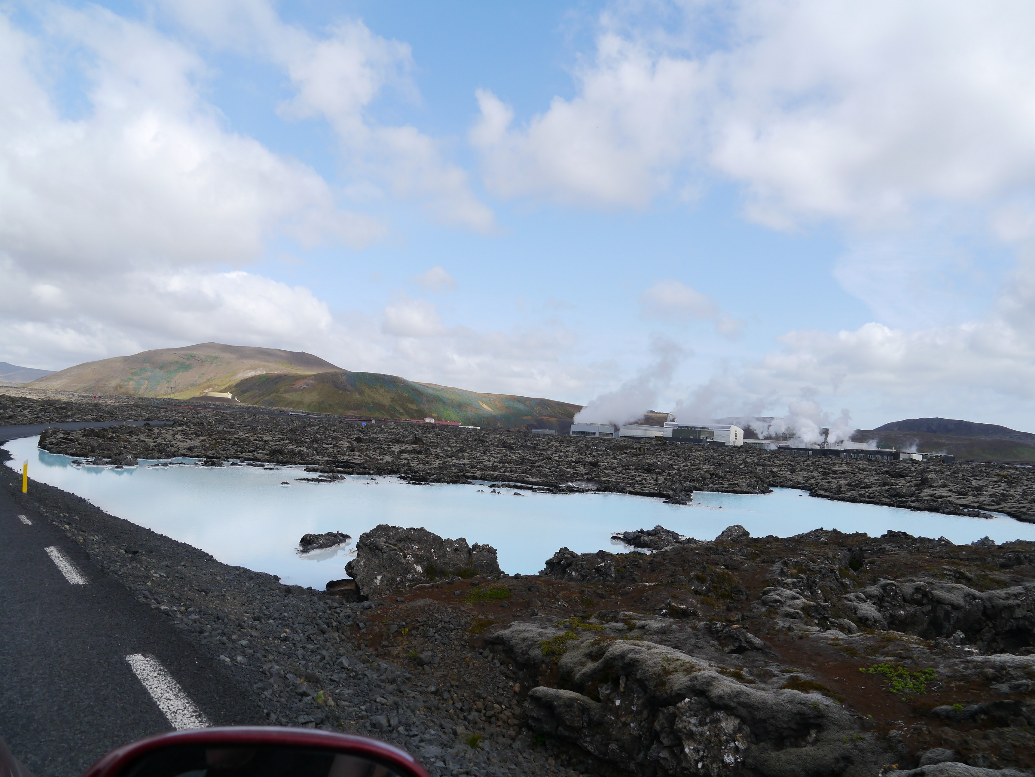 Blue Lagoon, Grindavík, Western Iceland